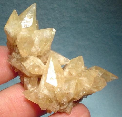 Calcite Locality: Nkana Mine, Chambishi-Nkana Basin, Kitwe, Copperbelt Province, Zambia (Locality at ) Size: 5.3 x 4.2 x 2.2 cm. An aesthetic, two-sided cluster of glassy, translucent, amber, dogtooth calcite crystals from a mostly unknown locality - the Nkana Mine of Zambia. Calcite is VERY UNCOMMON from Nkana and this is a GOOD one. Ex. Marty Lewadny Collection and in pristine condition.